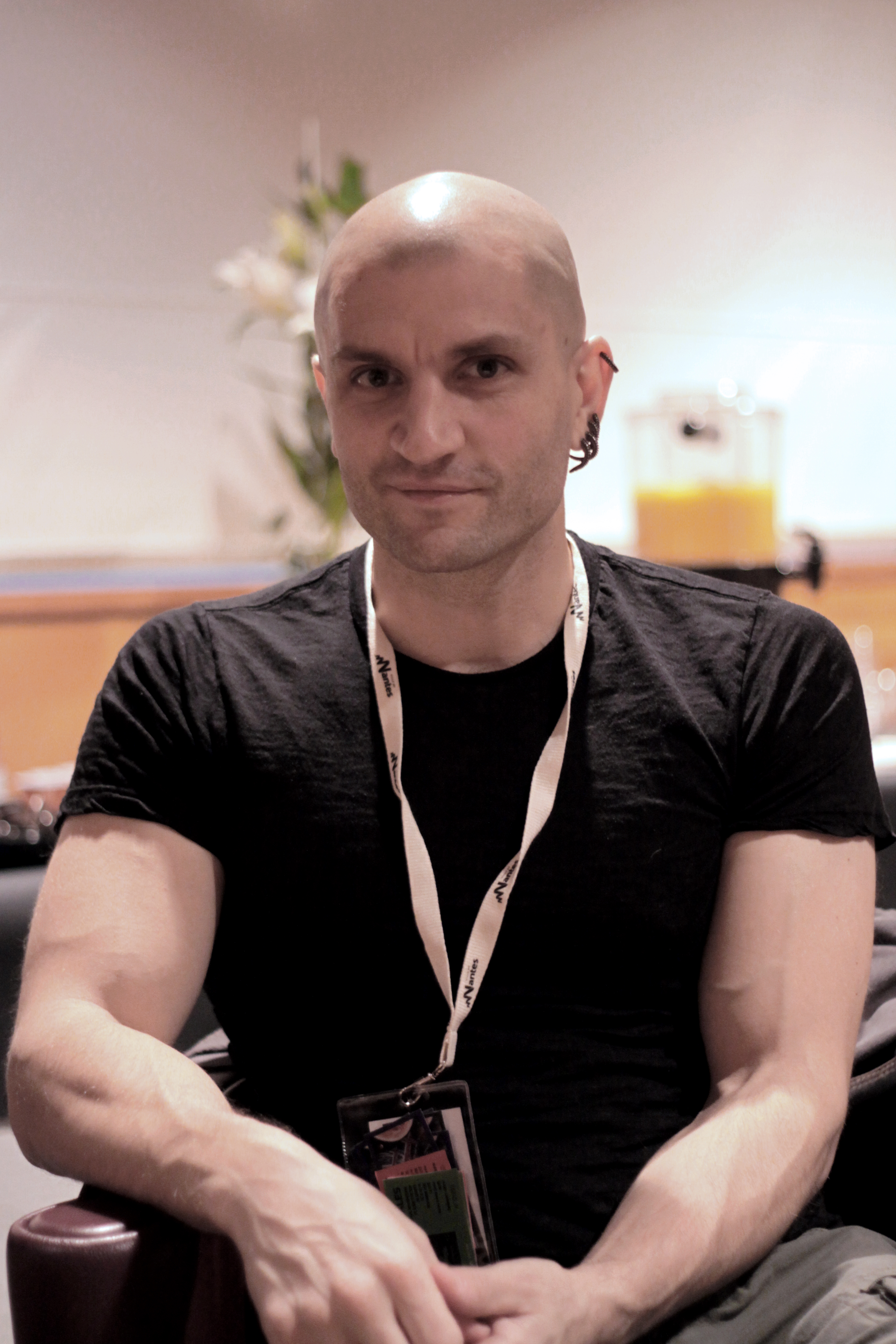 Author China Mieville at Utopiales 2010 (France).